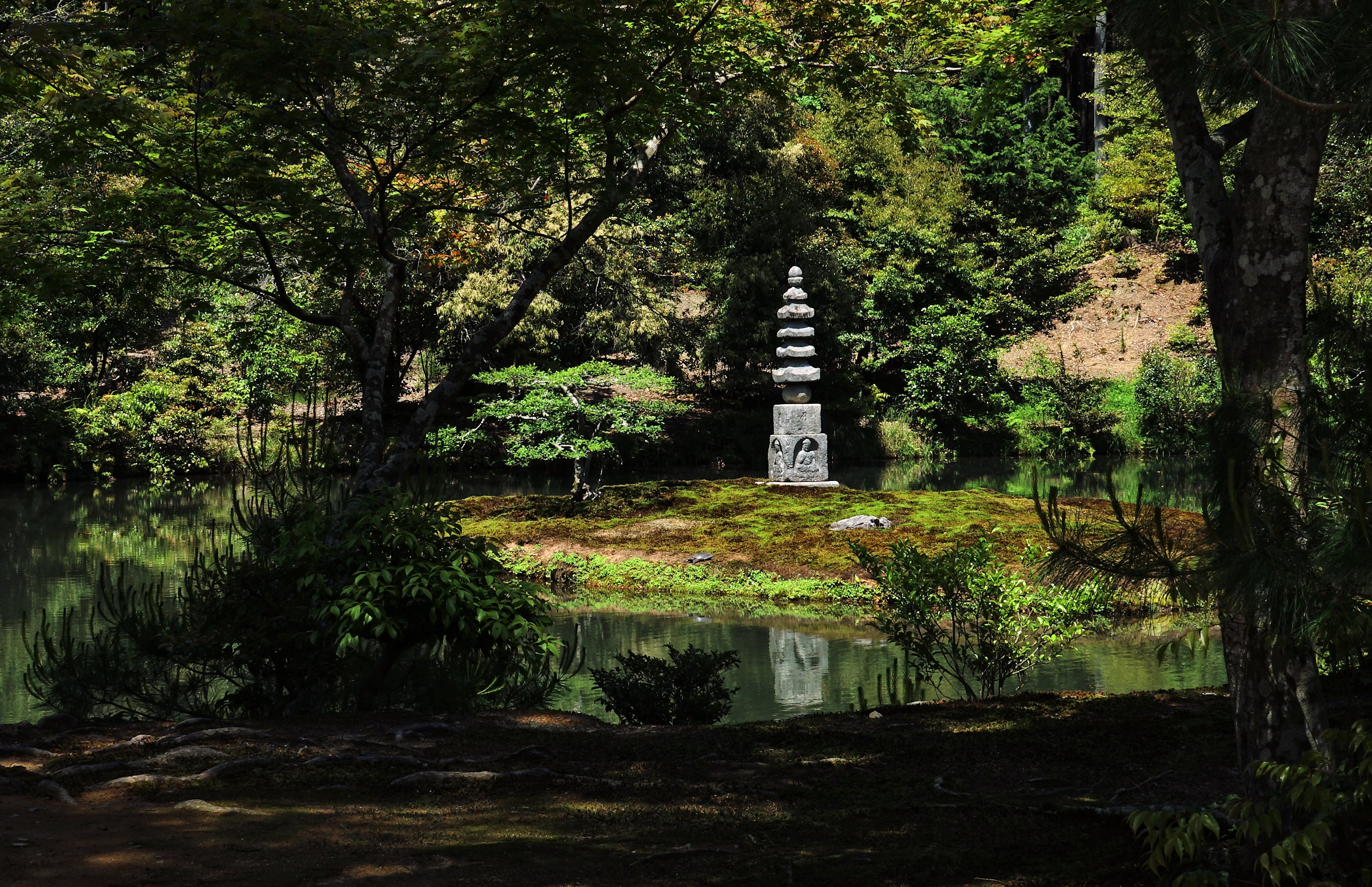 The White Snake Pagoda of Kinkaku-ji in Kyoto, Japan.